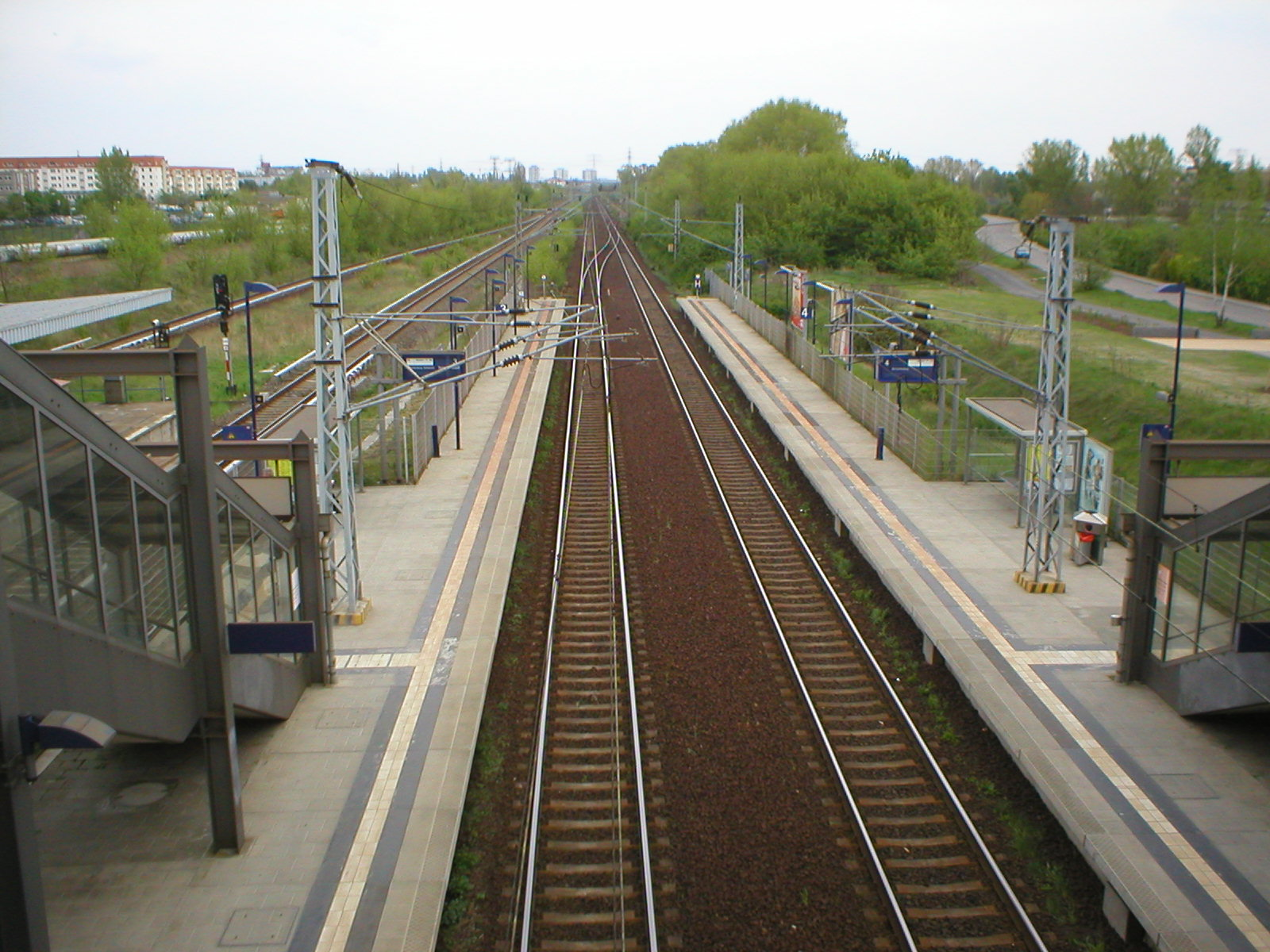 The Berlin regional train station "Hohenschönhausen"